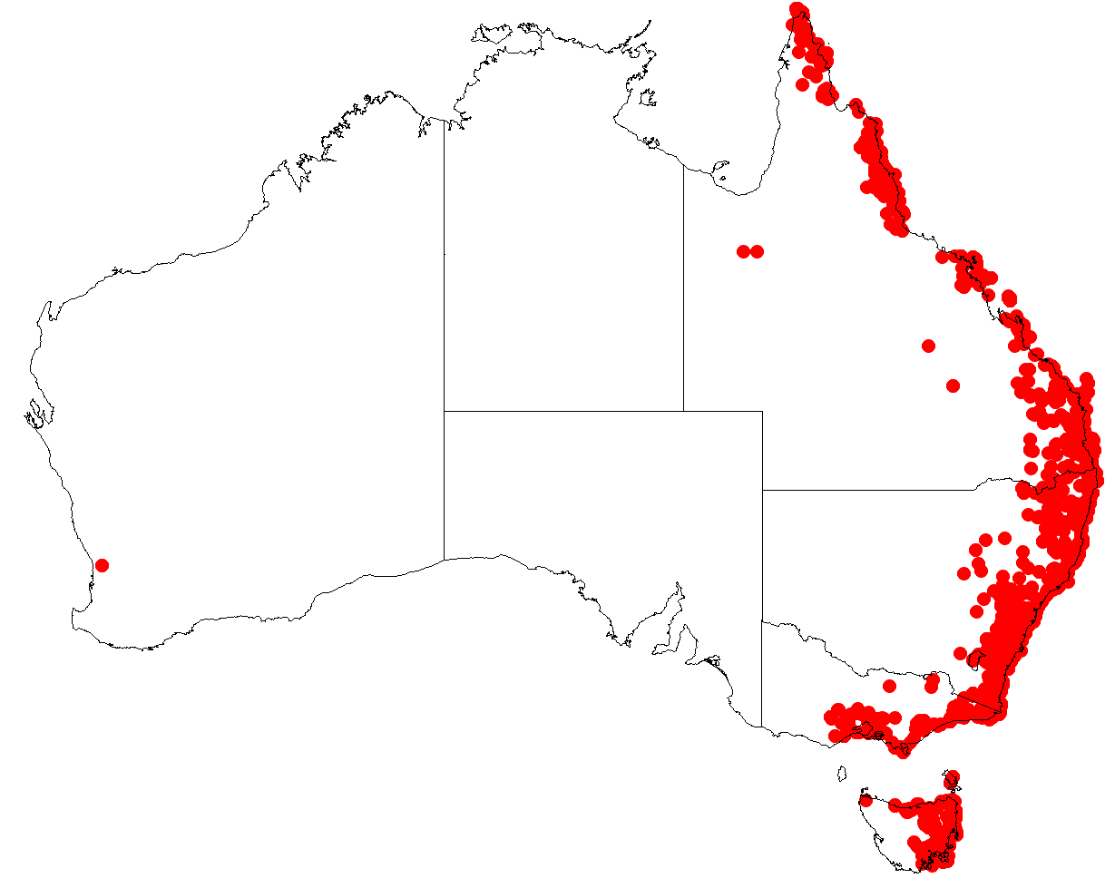 Allocasuarina littoralis Occurrence data downloaded from Australasian Virtual Herbarium on 4 July 2018